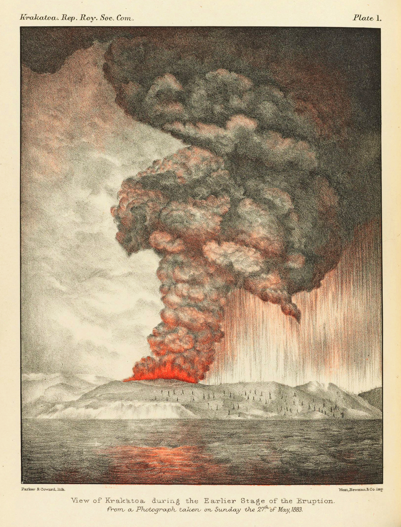 Illustration: The eruption of Krakatoa, and subsequent phenomena, 1888. Edited by George James Symonds (1838-1900). Published by the Royal Society (Great Britain). Krakatoa Committee. 71-1250, Houghton Library, Harvard University